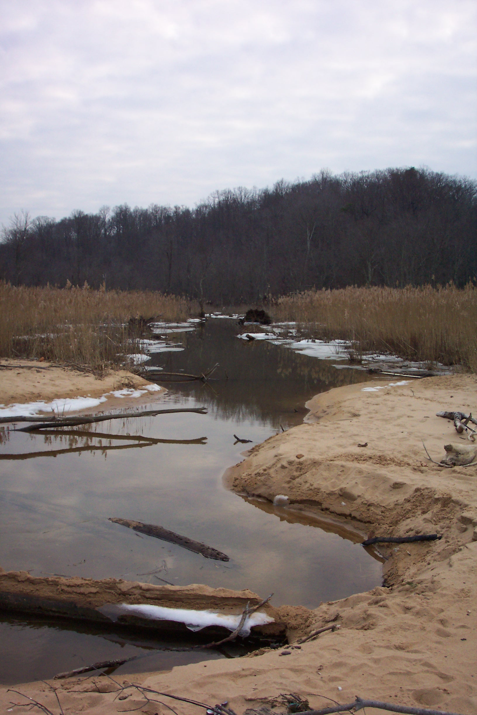 Winter in Westmoreland State Park, Virginia, USA